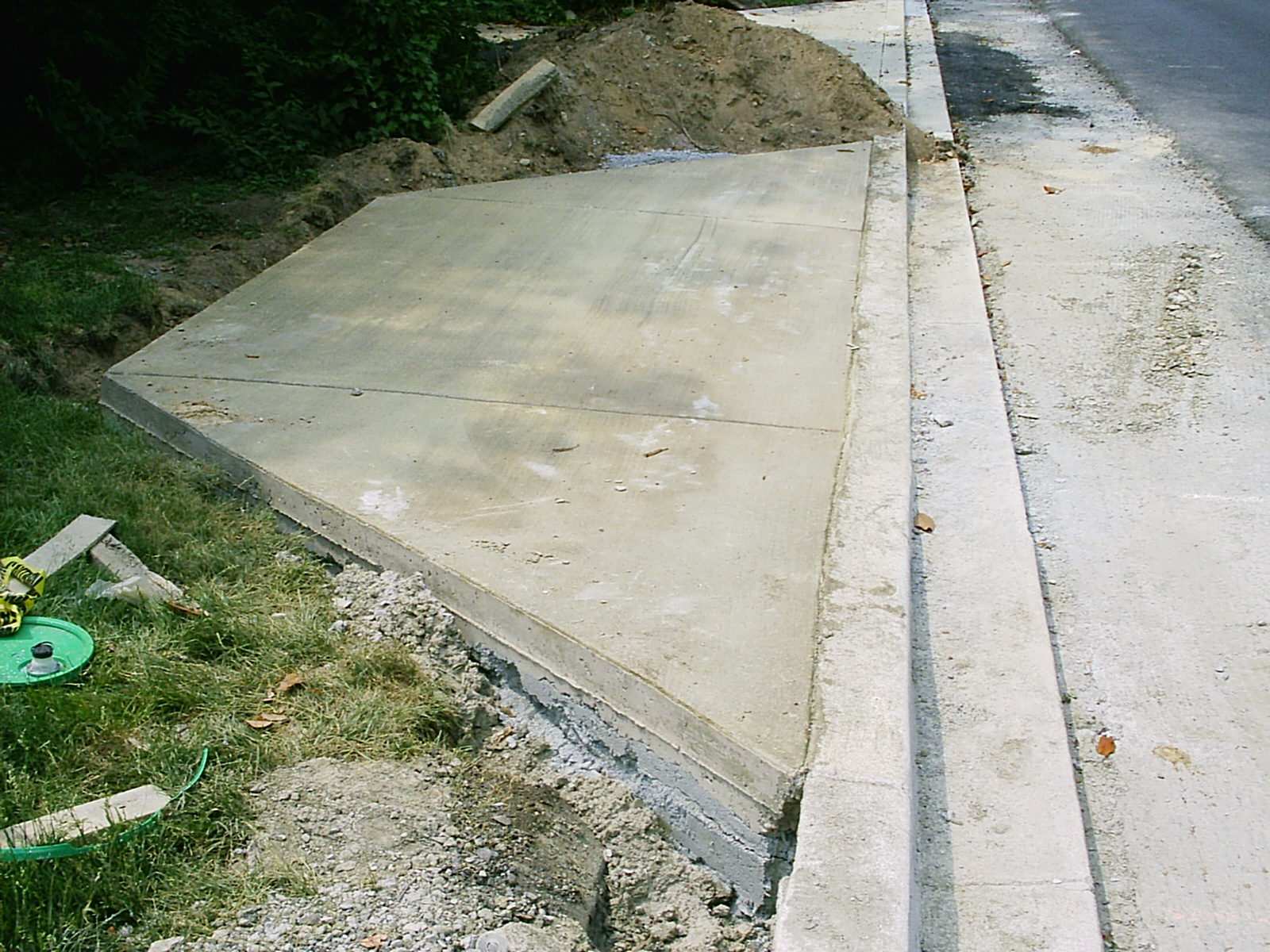 Driveway apron and sloped curb to public street (all under construction)